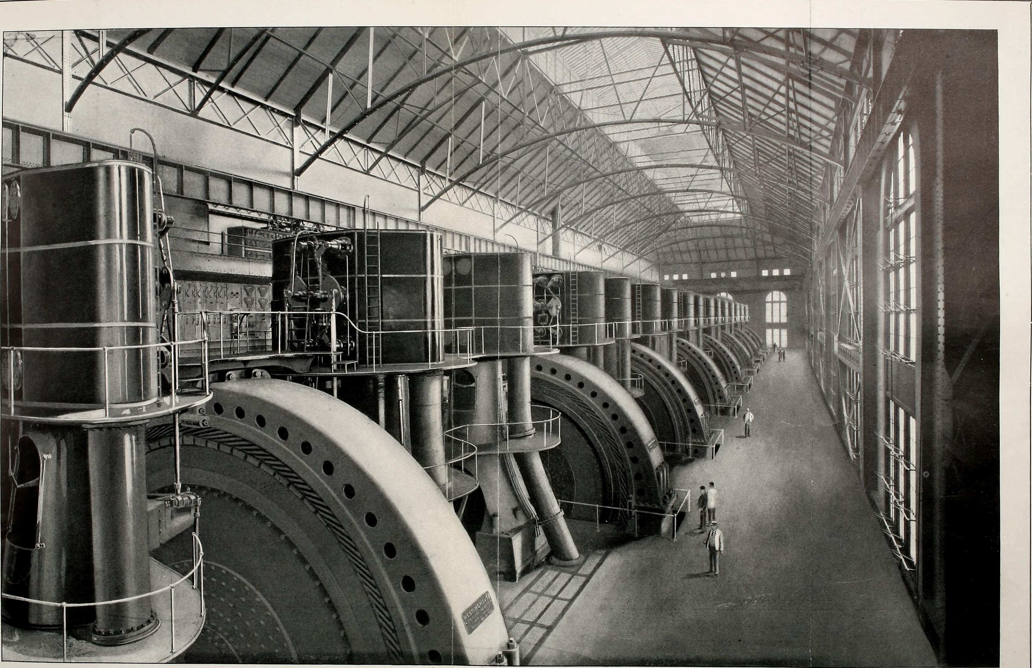 Title: The Street railway journal Year: 1884 (1880s) Authors: Subjects: Street-railroads Electric railroads Transportation Publisher: New York : McGraw Pub. Co. Text Appearing Before Image: SUPPLEMENT TO STREET RAILWAY JOURNAL. February i, 1902.) Text Appearing After Image: INTERIOR VIEW OF THE SEVENTY-FOURTH STREET STATION OF THE MANHATTAN RAILWAY CO. OF NEW YORK CITY, SHOW1NO EIGHT 8,000-H. P. GENERATING UNITS February i, 1902.) STREET RAILWAY JOURNAL. 119